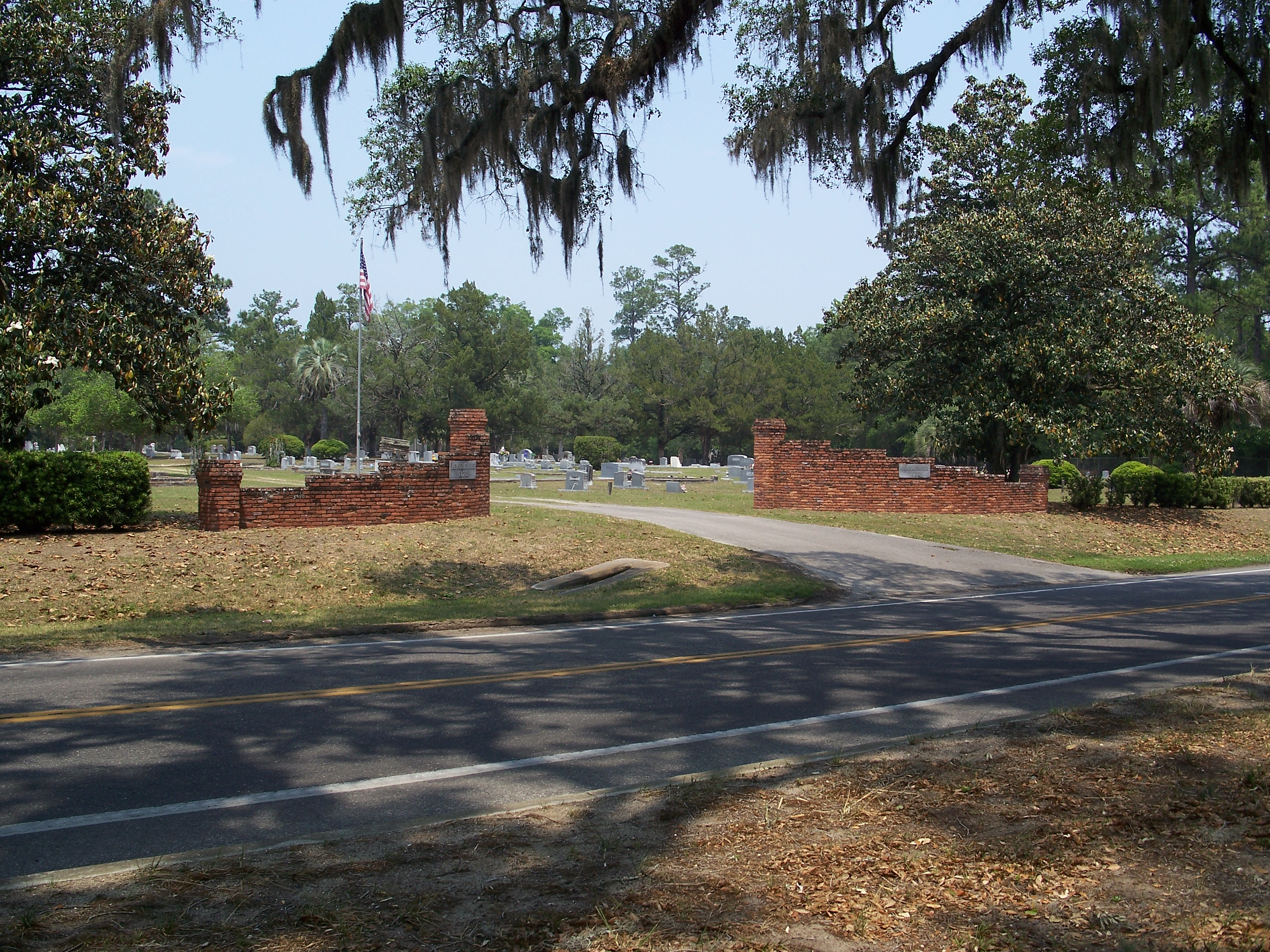 Entrance to the Newnansville Cemetery near Alachua, Florida. The town site is on the National Register of Historic Places